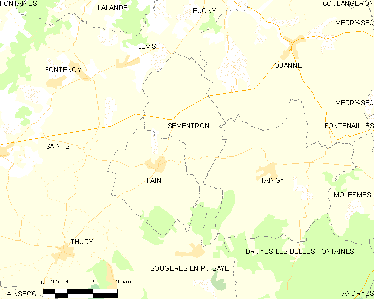 Map of French municipality Sementron